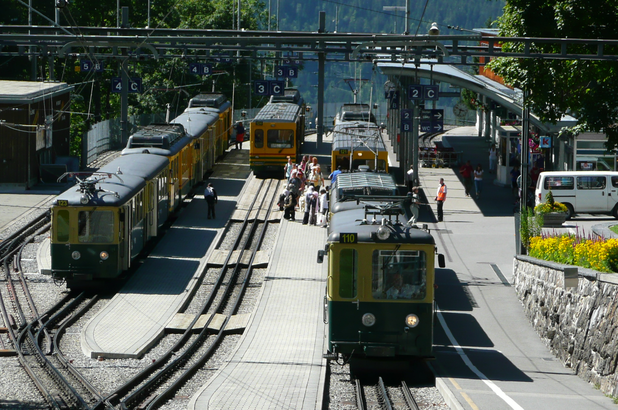 Wengernalp rack railway Wengen station track 2 two trains to Kleine Scheidegg tracks 3 and 4 three trains to Lauterbrunnen – 2009-08-05